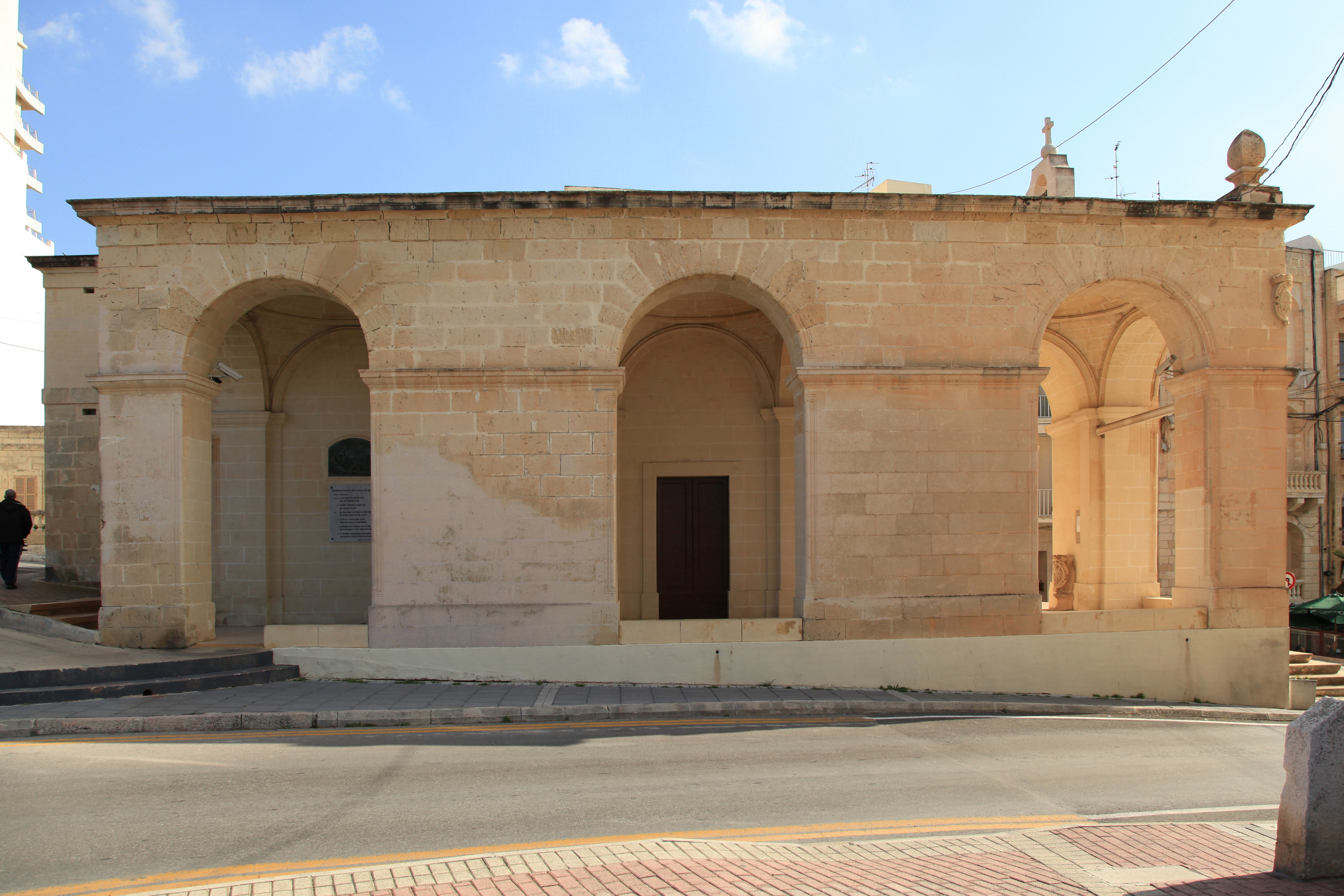 Shipwreck Church, Dawret il-Gżejjer/Triq il-Knisja in St. Paul's Bay, Malta